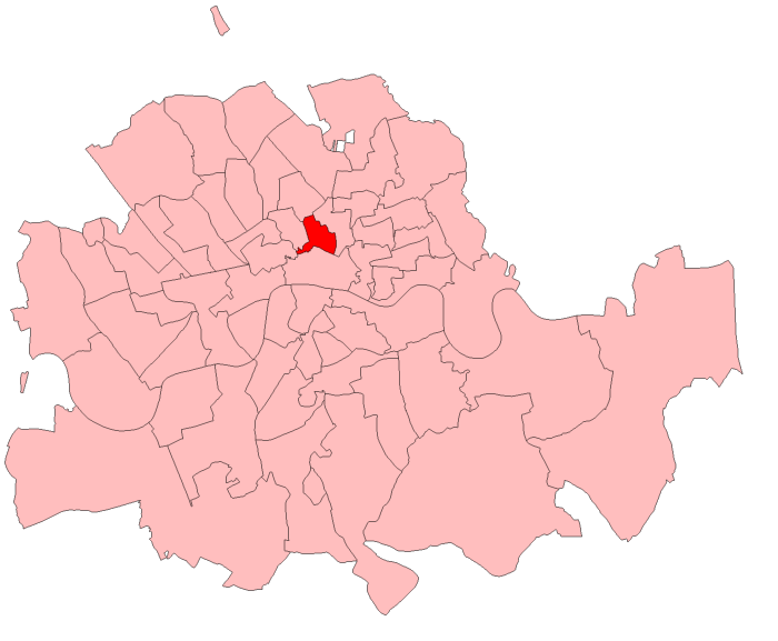 A map of Finsbury East constituency within the Metropolitan Board of Works area, as it existed from 1885 to 1918.